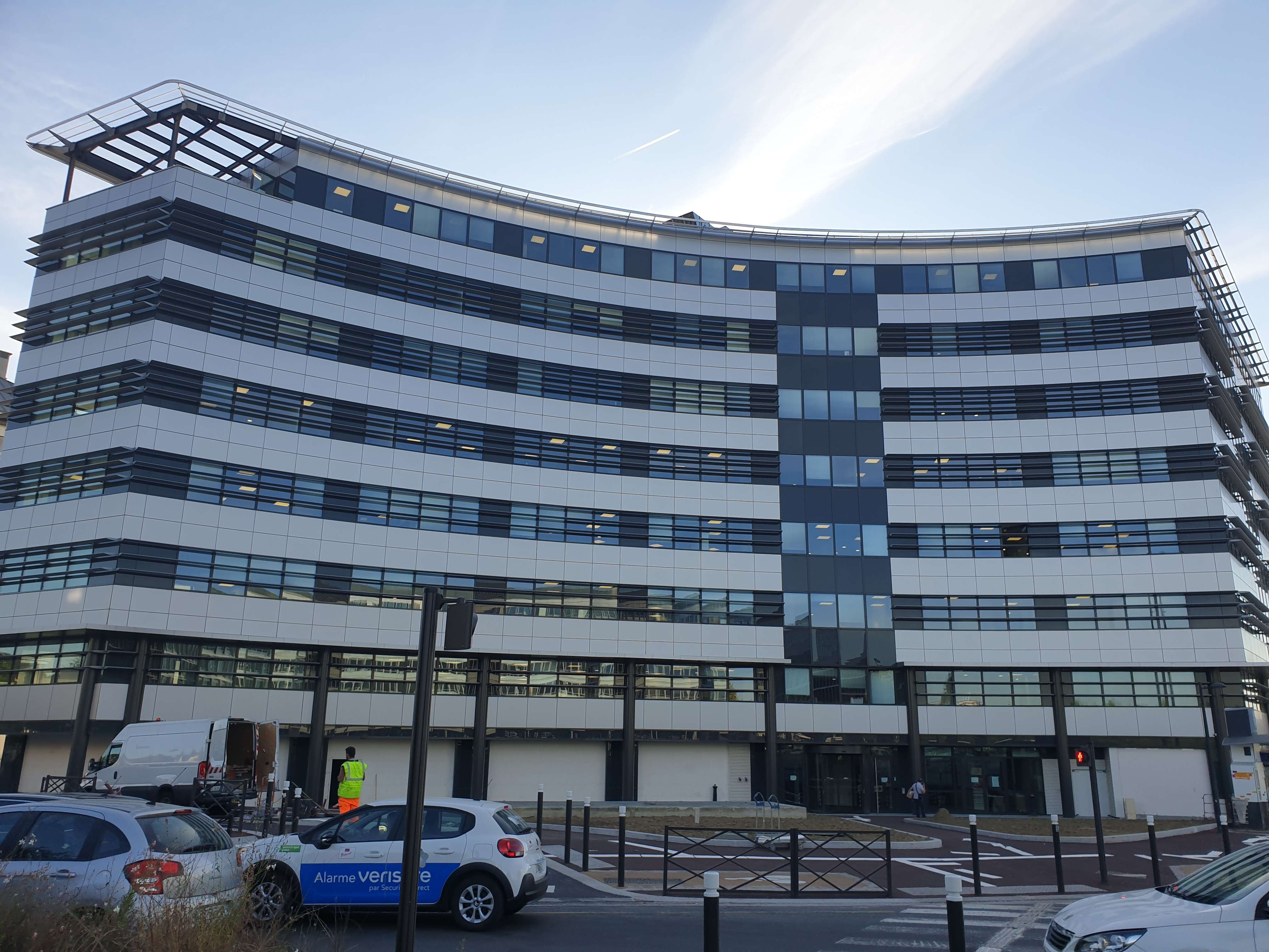 French Verisure headquarters at Antony